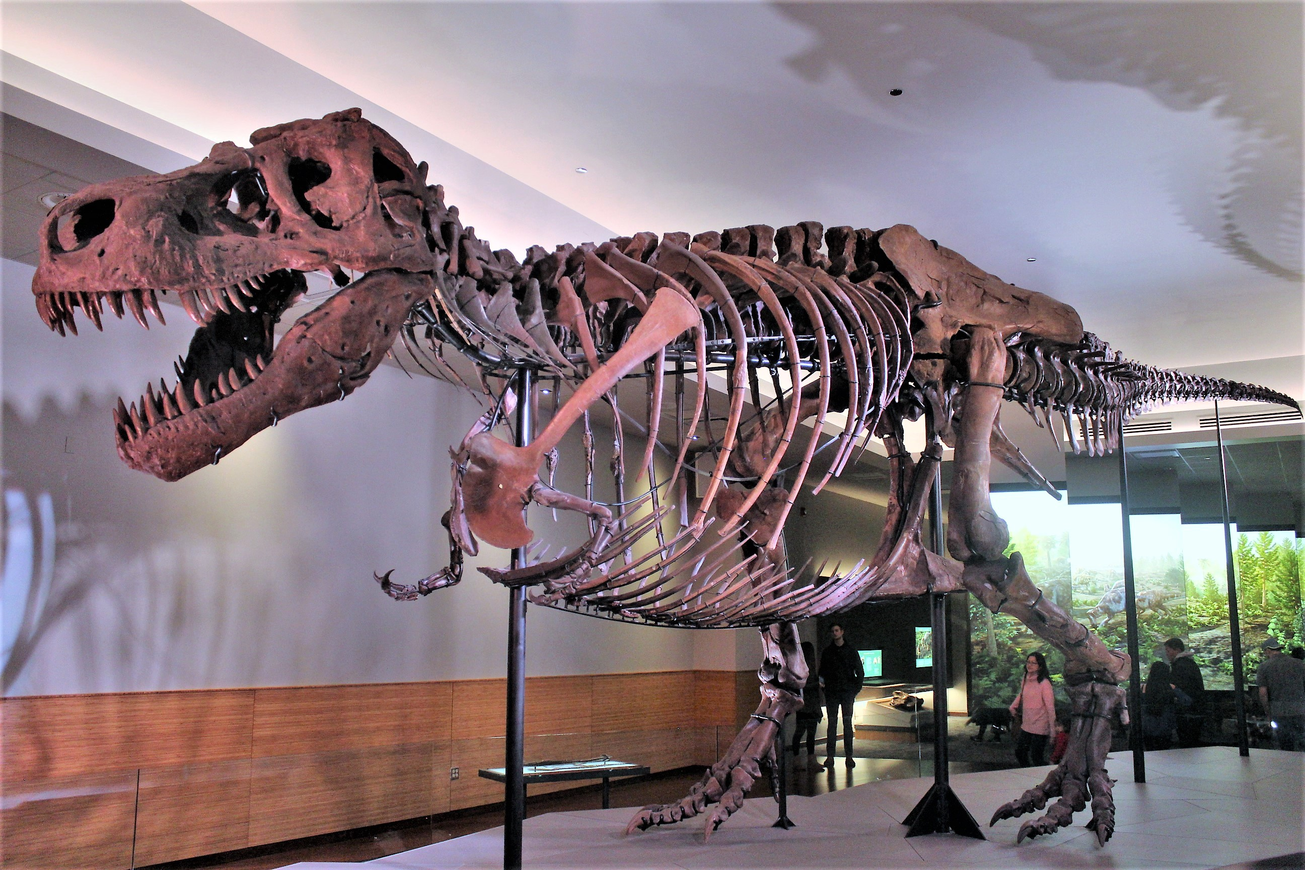 The updated mount(2018) of the Tyrannosaurus specimen FMNH PR 2081 "Sue". Mounted in the Evolving Planet exhibit.